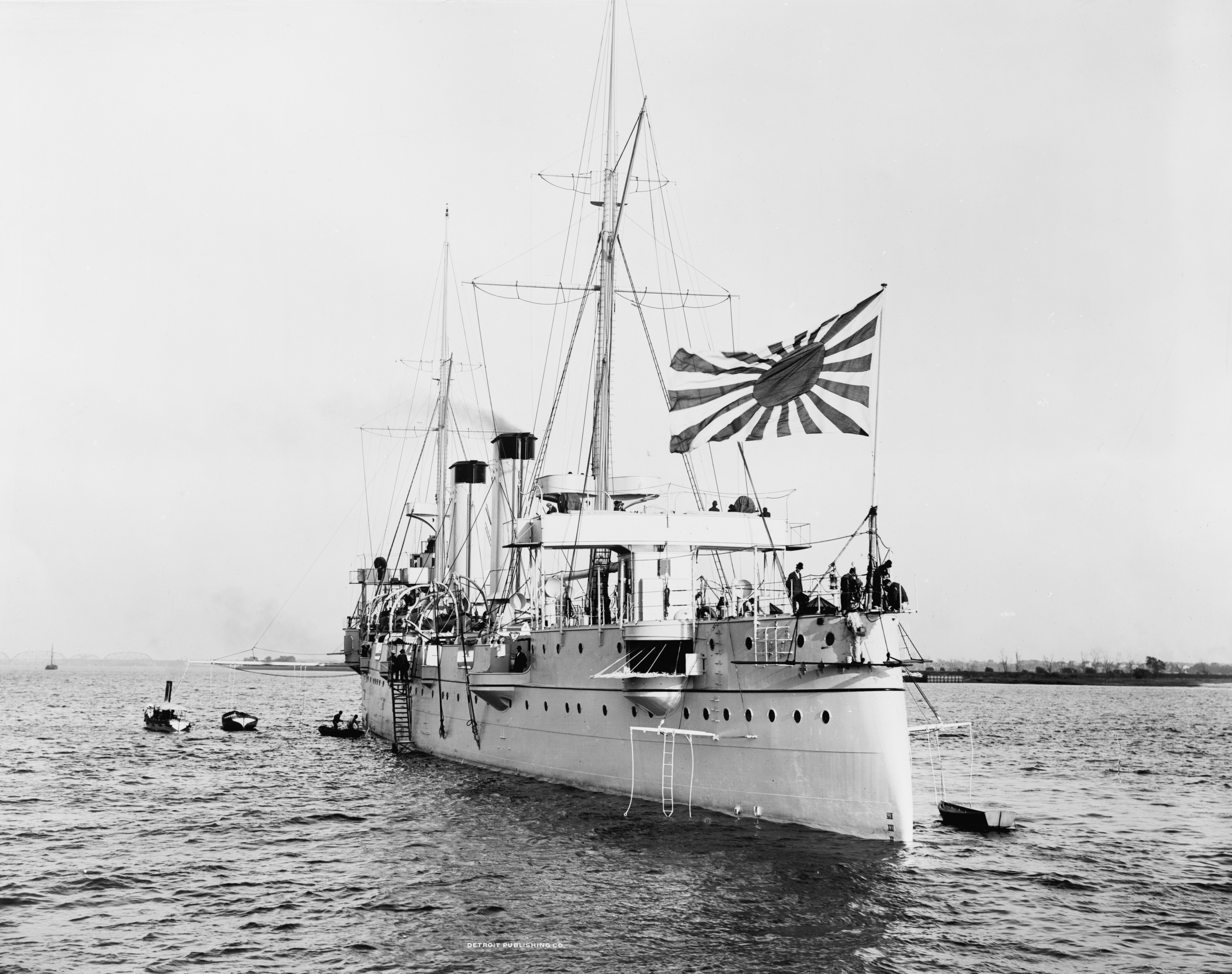 Kasagi 1898 without her guns prior to departure for Newcastle